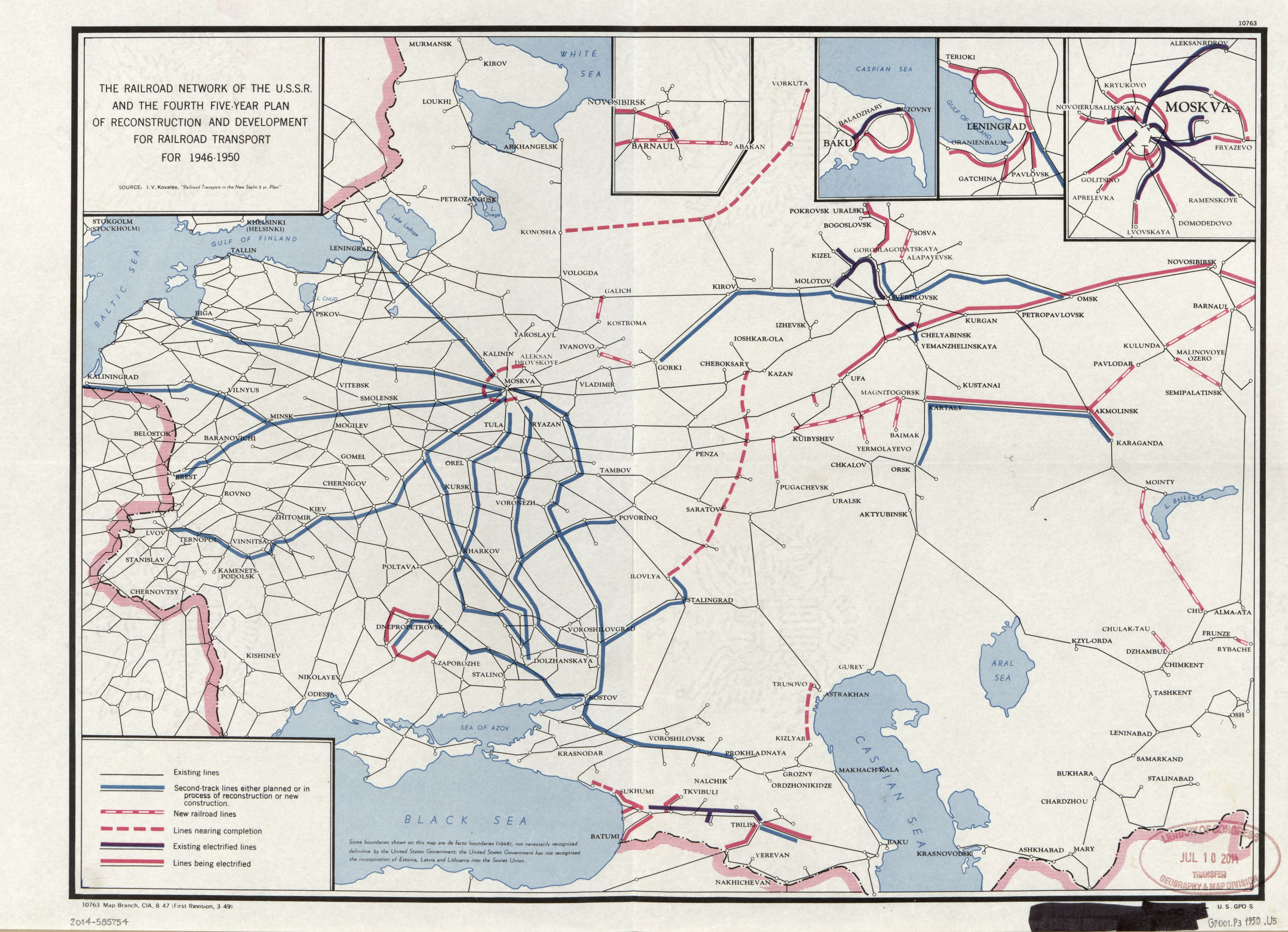 Shows existing lines, lines with second track planned/newly in service, new lines built/nearing completion, electrified lines, and lines being electrified. Does not cover USSR east of Novosibirsk/Alma-Ata. Includes notes and 4 regional insets "10763." Available also through the Library of Congress Web site as a raster image.